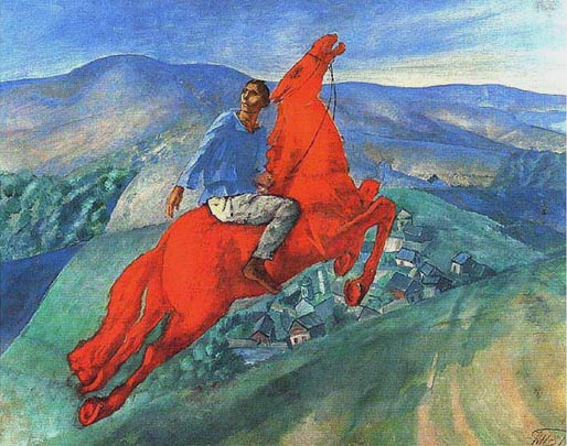 Painting "Fantasy (The rider on the red horse)"